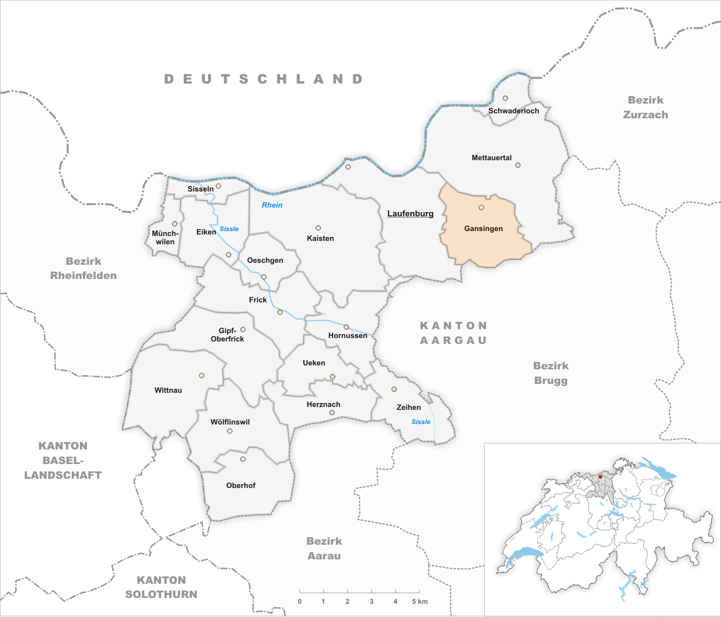 Municipality Gansingen